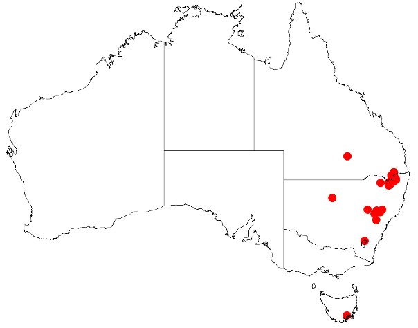 Acacia betchei Occurrence data from Australasia Virtual Herbarium downloaded from on 8 December 2018